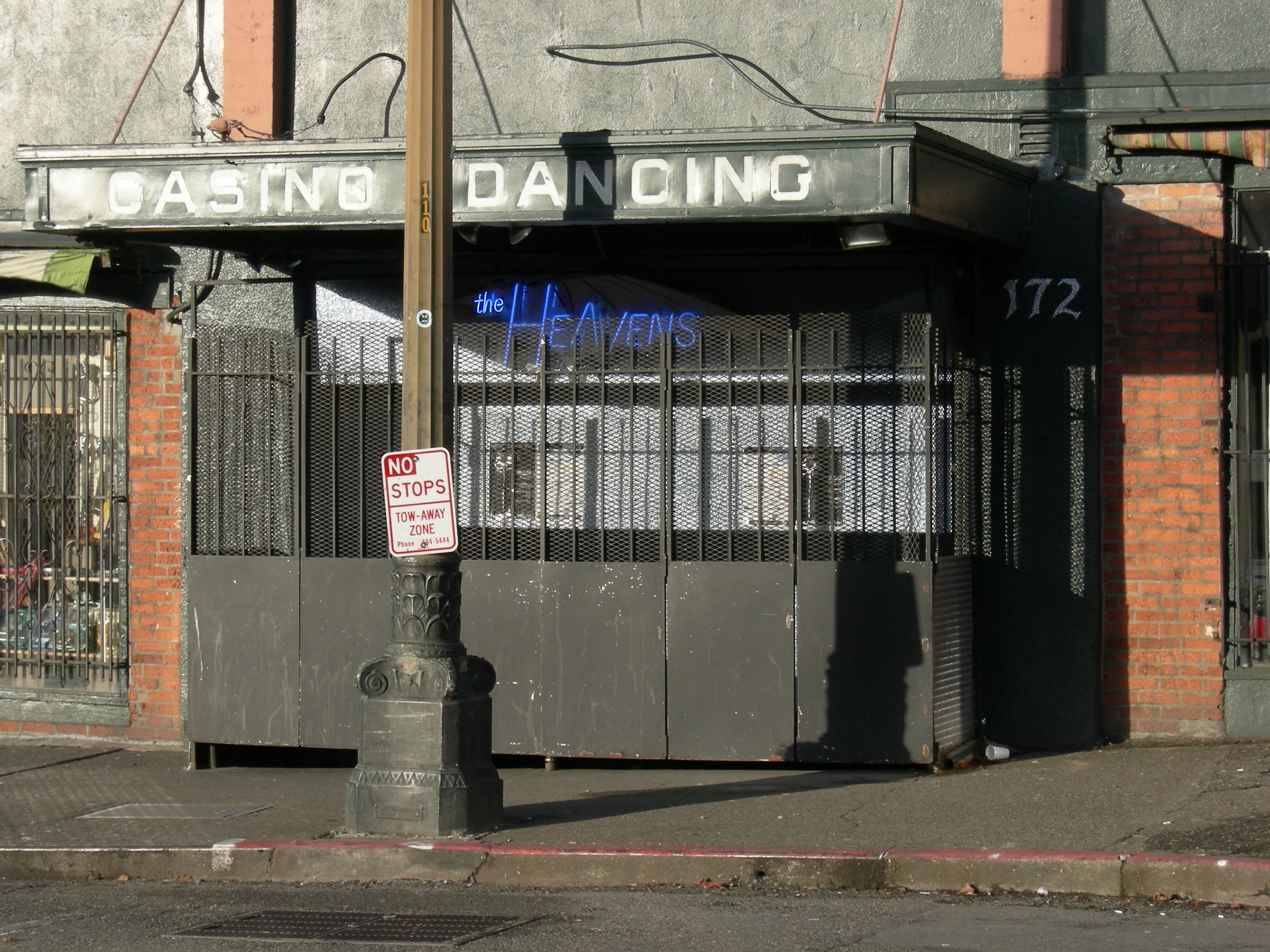 Seattle's Nugent Block and Considine Block, built as one building at the corner of 2nd Ave. S. and S. Washington Street in the Pioneer Square neighborhood of Seattle, Washington has a long and interesting history, much of which is recounted at John Considine (Seattle)#The People's Theater building, complete with footnotes leading to four references with further information. This picture shows the current entrance to the basment bar that was once the People's Theater.